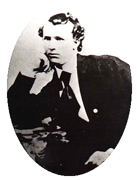 From a photograph taken before 1876